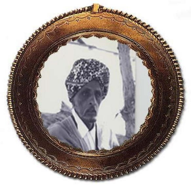 1905 portrait of Mohamoud Ali Shire, the 27th Sultan of the Somali Sultanate of Warsangali.